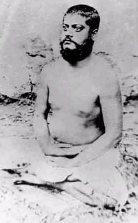 Image of Swami Vivekananda in Cossipore